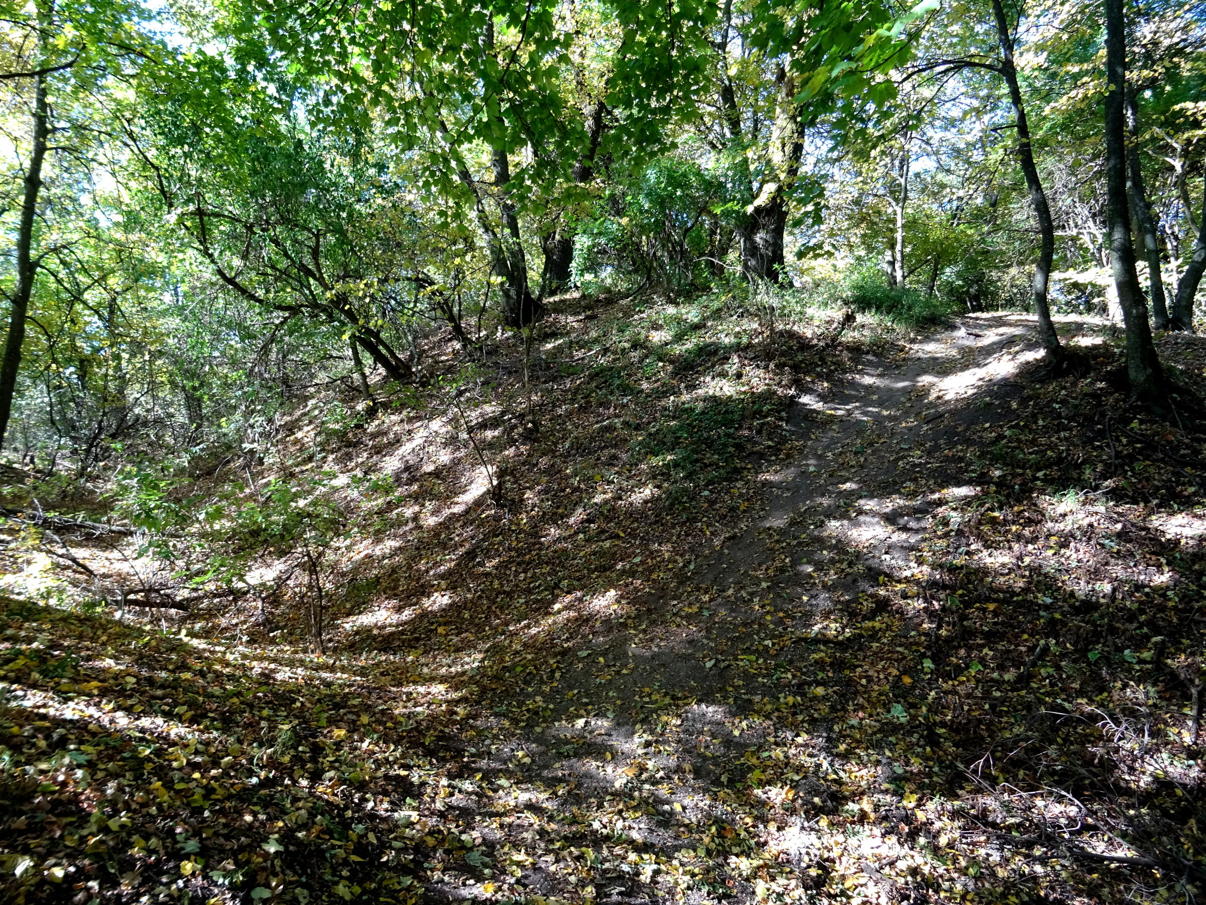 Earthworks of a medieval fort on Lempeș hill